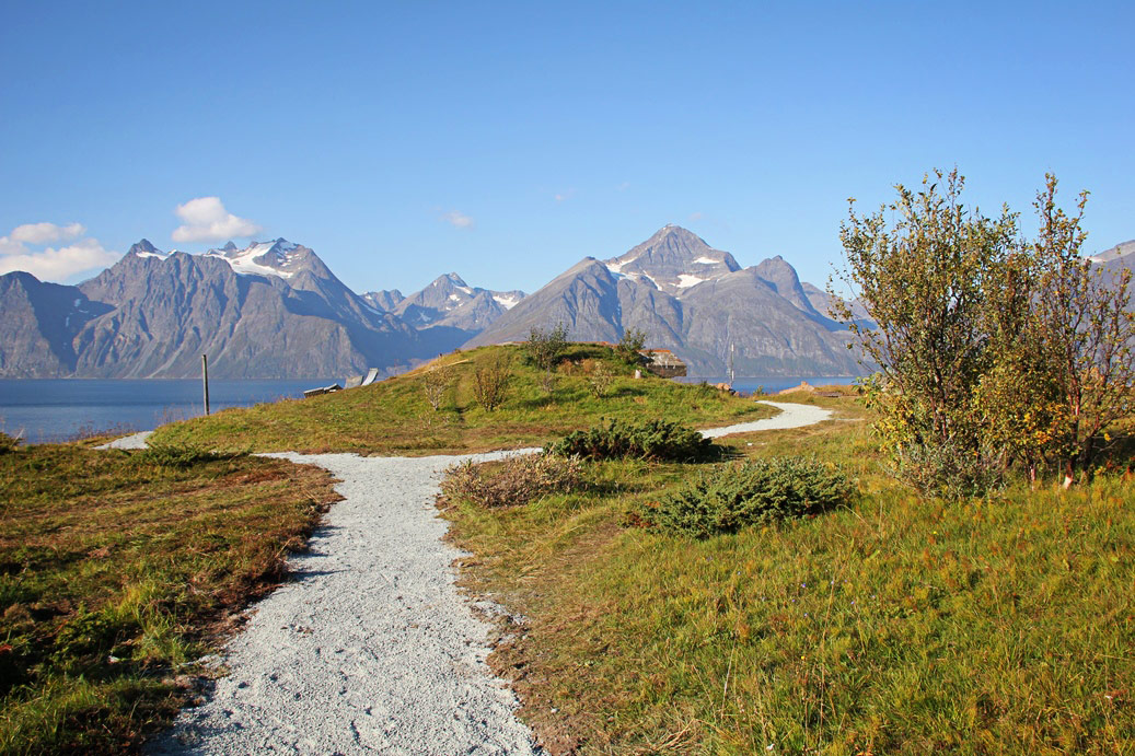 Spåkenes coastal fort, new trail